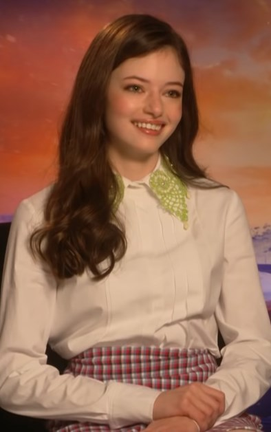 Stars of Disney’s spectacular new movie The Nutcracker And The Four Realms, Mackenzie Foy and Misty Copeland, get FESTIVE as we play a very special game of Never Have I Ever: CHRISTMAS Edition! Can you guess who puts a bowtie on their cat every Christmas? Plus, Misty Copeland reveals how you can become a ballet dancer just like her, and Mackenzie Foy reveals her ideas for her own TWILIGHT movie spinoff!.